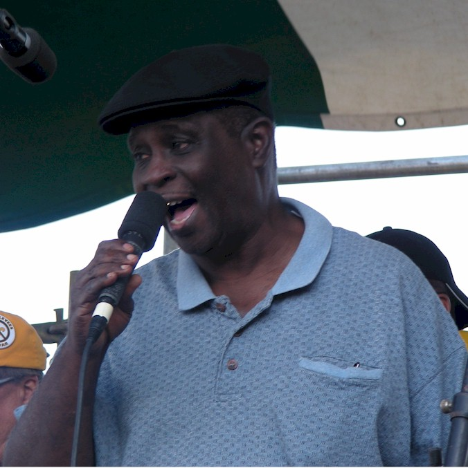 Al "Carnival Time" Johnson, performing at French Quarter Festival, in New Orleans LA, Sunday 4/15/2007.